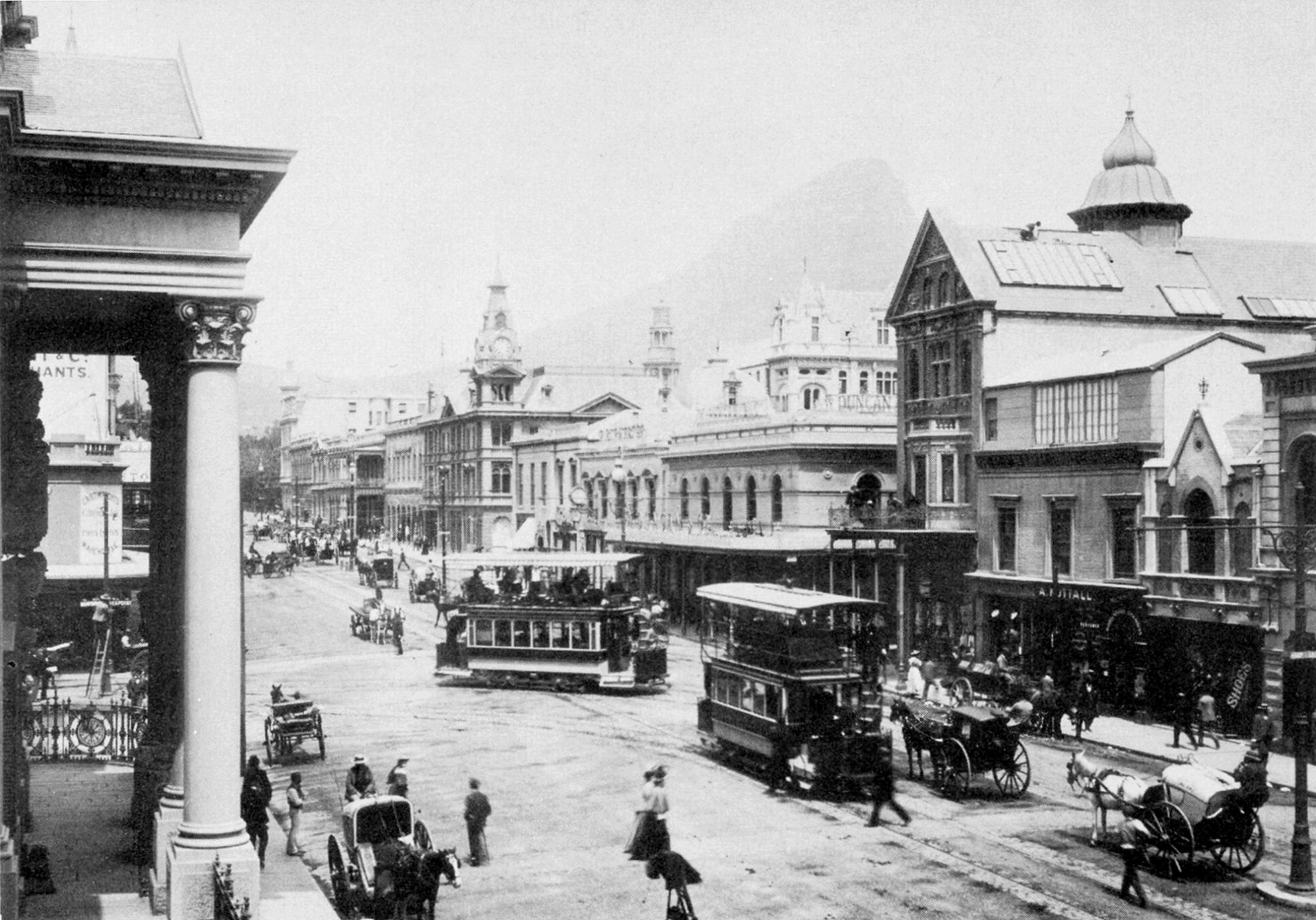 Two Cape Town trams at Cartwright's Corner, Adderley Street, where the trams branched off into Darling Street.